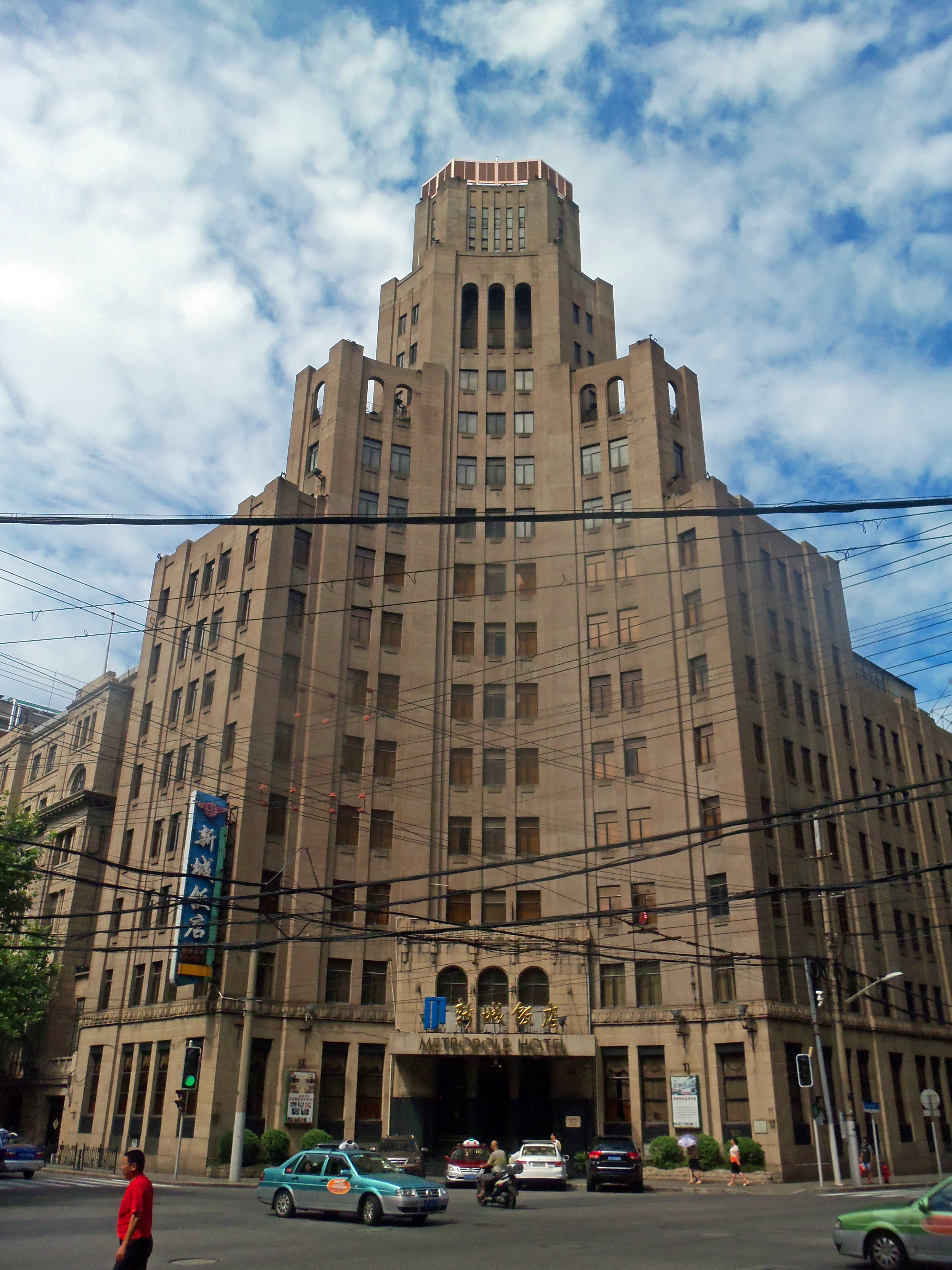 Hotel Metropole, Shanghai, from across the circular intersection it sits on